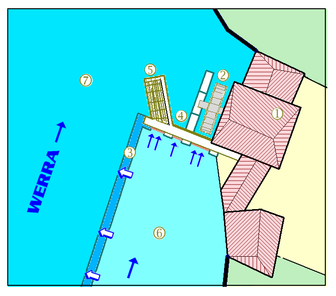 The map of the Schweddrich in Sallmannshausen.